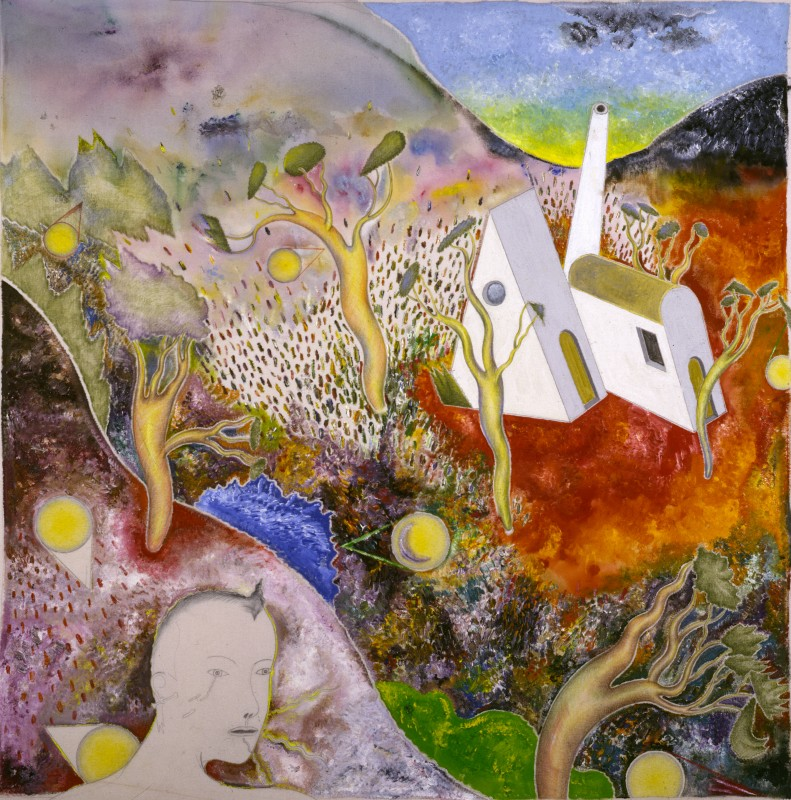 This painting entered the Cariplo Collection from the antique market in 1991. A photograph of the work in the archive of the Cariplo Foundation has on the back the signature of the artist confirming its authenticity and dating it to the 1980s, when he became established on the international art scene. In an autobiographical note of 1982 Alinari refers to his long walks on the outskirts of the city through junk yards filled with old things, and his interest in the surprising effect of the random juxtaposition of abandoned things. From the 1960s this was the dominant theme of his research in which initially ideas drawn from children’s illustrations, graphic art and Pop Art could be found. During the 1980s his first fantastical landscapes began to appear, inspired by the 15th-century Tuscan figurative tradition and by popular fairy tales, densely populated by objects that seem to take on a life of their own. This work in the Collection, datable to the end of the 1980s, is typical of his mature works as regards subject matter, vivid brilliant palette and especially the extremely refined pictorial technique adopting fields of smooth, thin, acrylic colours, short brushstrokes in relief and pencil and .tempera touches. The title of the painting is probably inspired by the figure in tears depicted in the lefthand corner of the canvas enclosed with a wavy line in a space coloured in tones of grey, black and red. Perhaps he represents a visitor who is unhappy because he is unable to capture the secret life of things and the surrounding landscape, or sad because the beauty of the place is being destroyed by the factory spewing out its thick cloud of smoke.